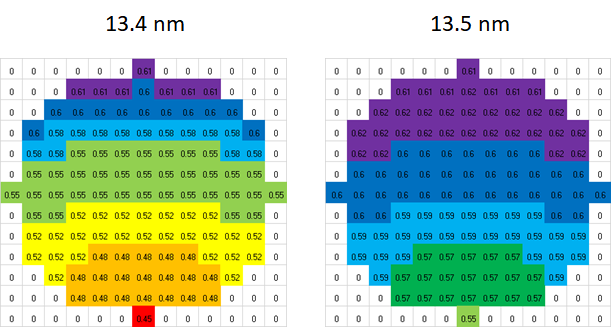 For different EUV wavelengths, the angular dependence of the reflectance from the EUV mask multilayer is different,[1][2] resulting in effectively different pupils. Source-mask optimization would exclude portions of these pupils,[3] leading to different results for different wavelengths. Both 13.4 nm and 13.5 nm are used in EUV exposure of resists, since they are well within the 2% bandwidth. The angular dependence of reflectance with off-axis central angle results in nonuniform distribution across the pupil.[4]